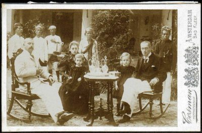 Photograph showing Henri Borel and Bas Veth (left) in Macassar (Makassar), 1897 at home in the garden of Borel.